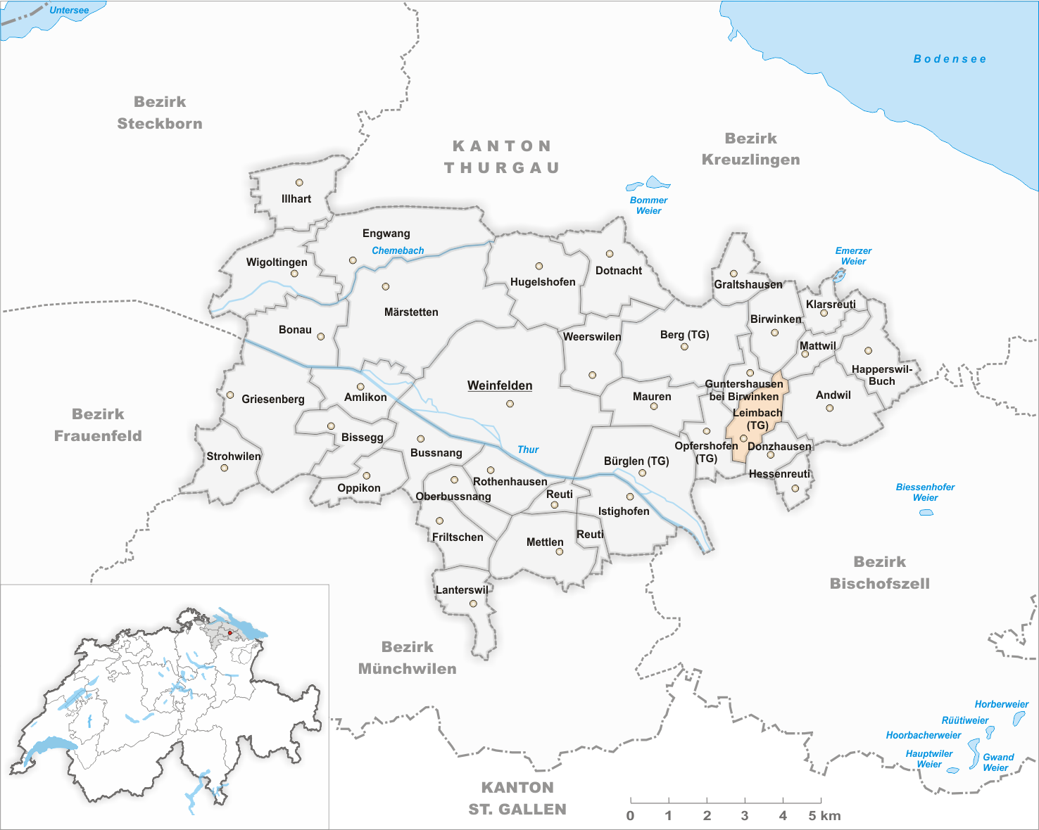 Municipality Leimbach